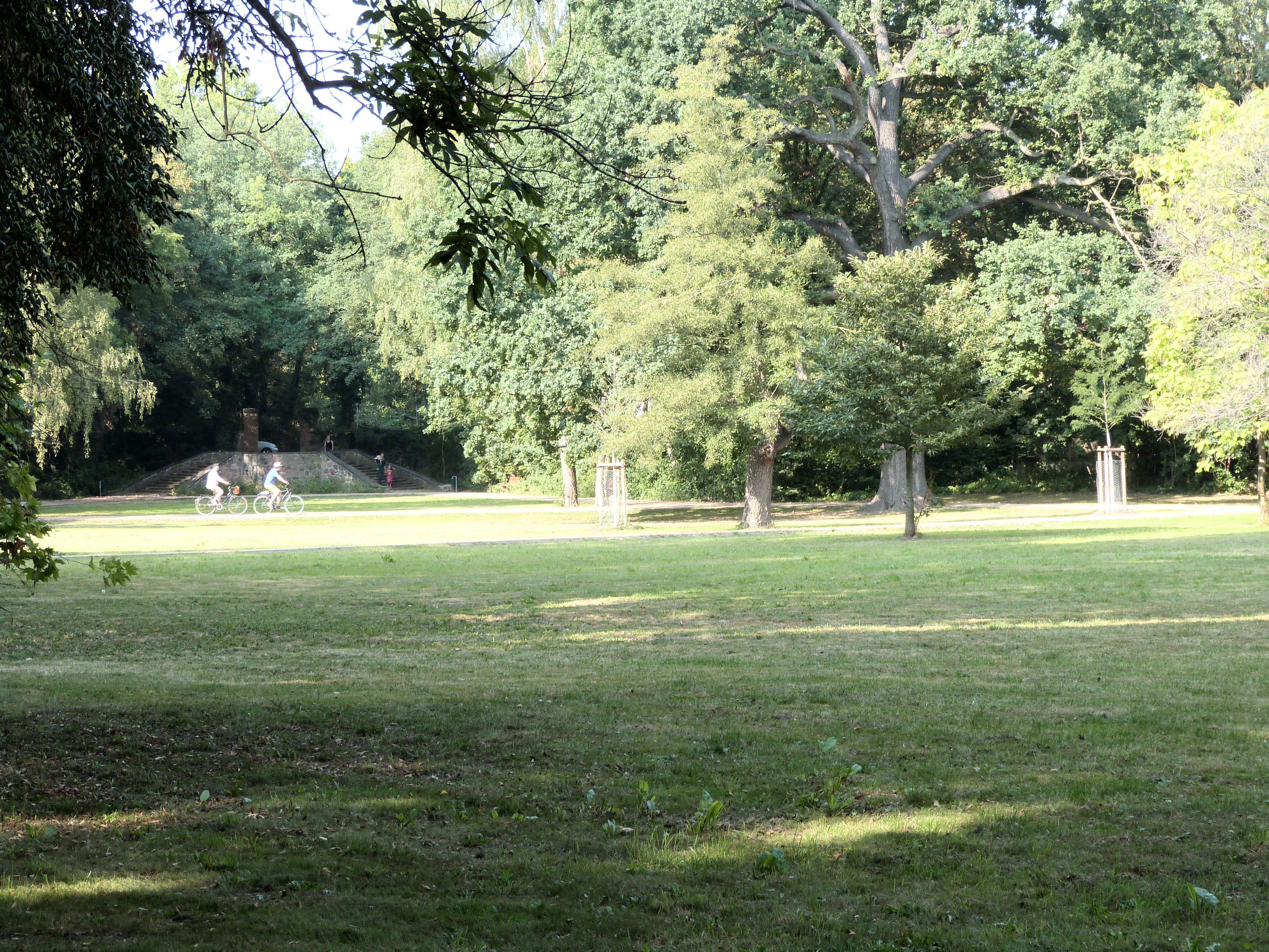 Gimritz park, Halle (Saale), Peißnitzinsel (Peißnitz island)